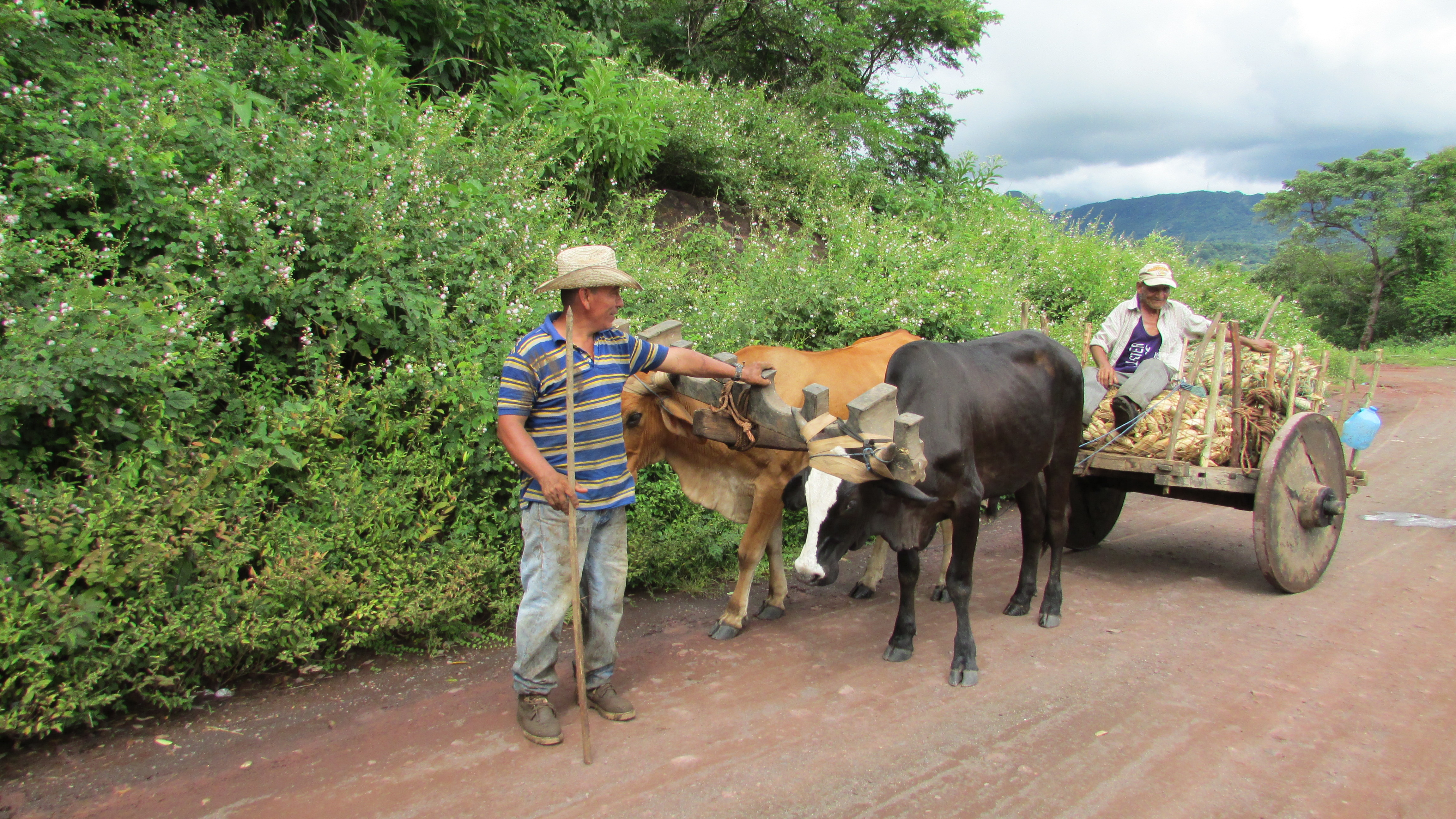 Agricultural community life in Nuevo Gualcho, El Salvador